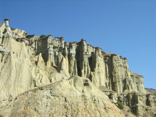 Kuladokkia - Kula, Manisa, Turkey.